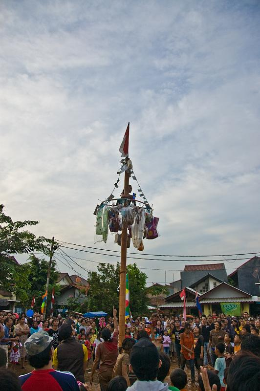 Panjat pinang. Lots of prizes for the winning team.